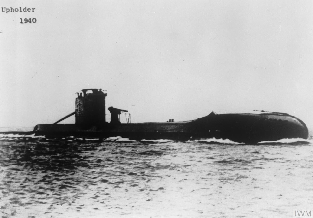 British U class submarine HMSM UPHOLDER underway.